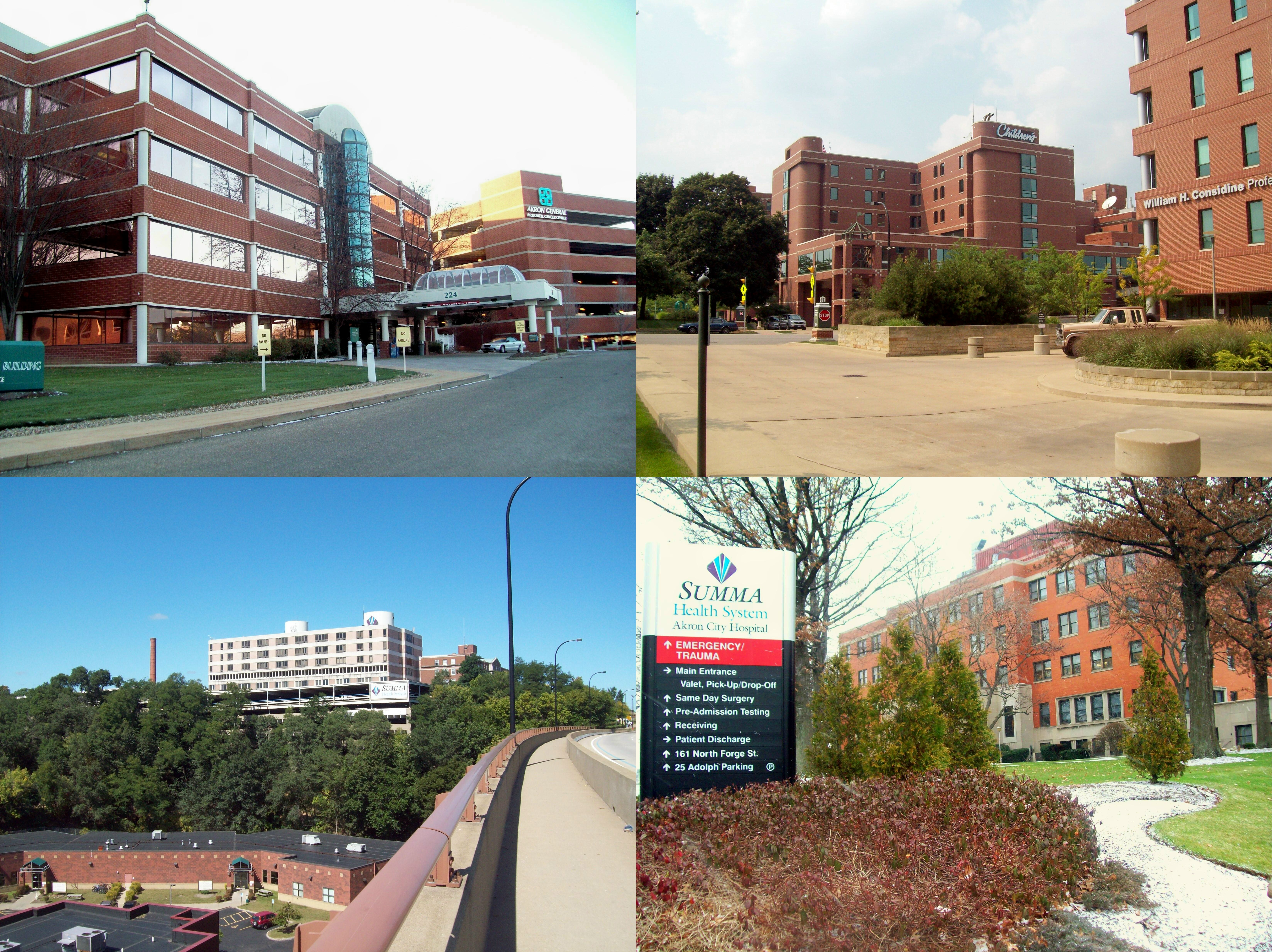 Akron Health